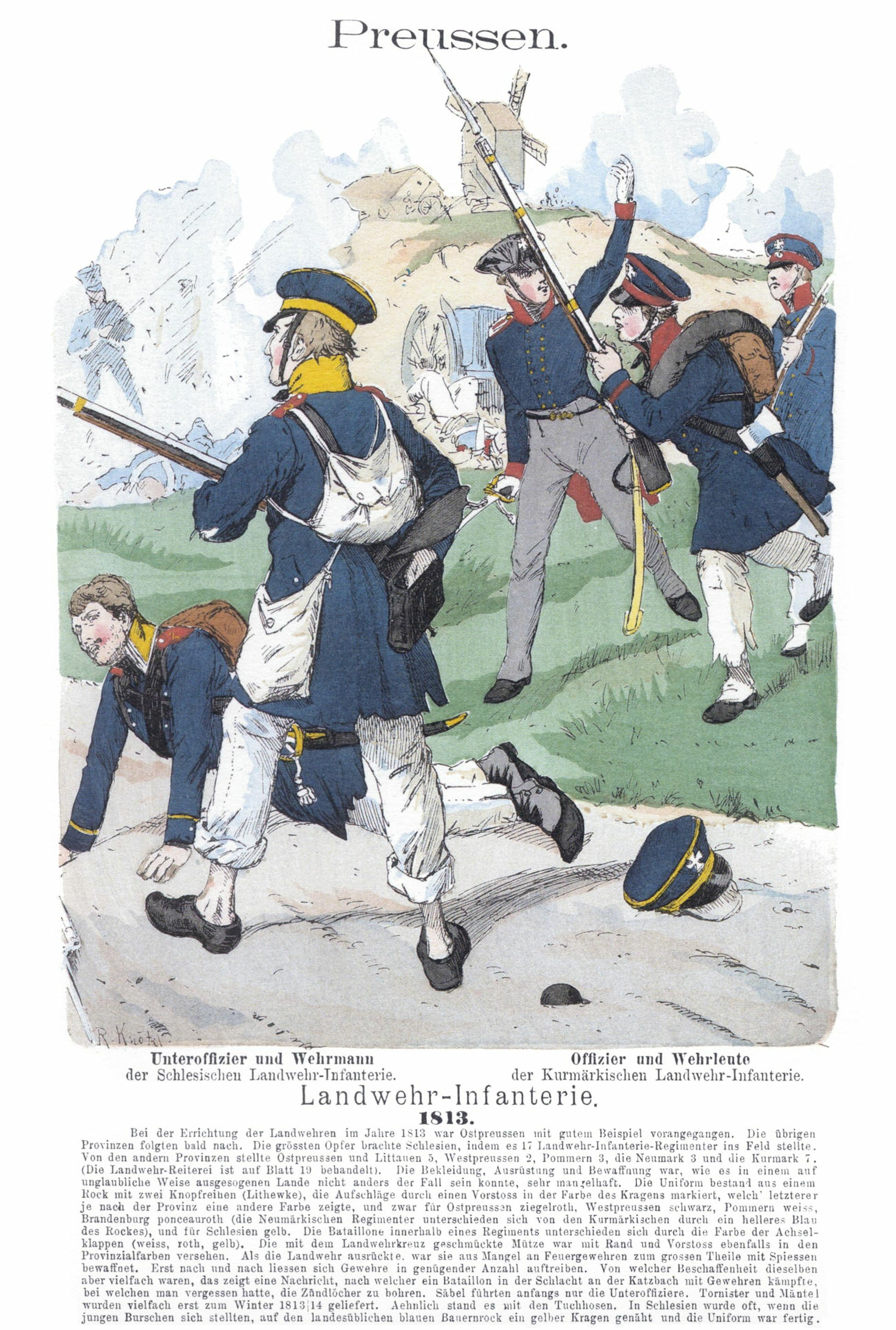 Preußen Landwehr-Infanterie 1813